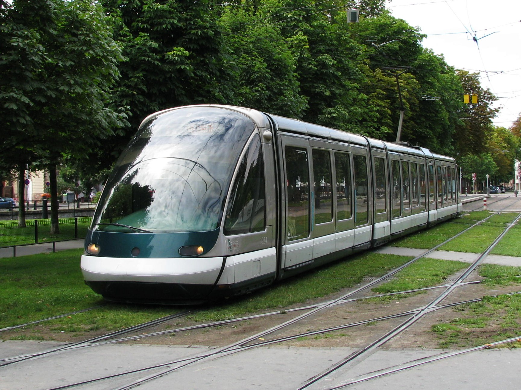 Tramways in Strasbourg